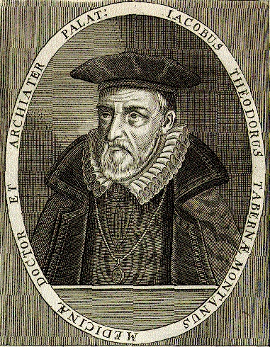 Portrait of Jacobus Theodorus Tabernaemontanus